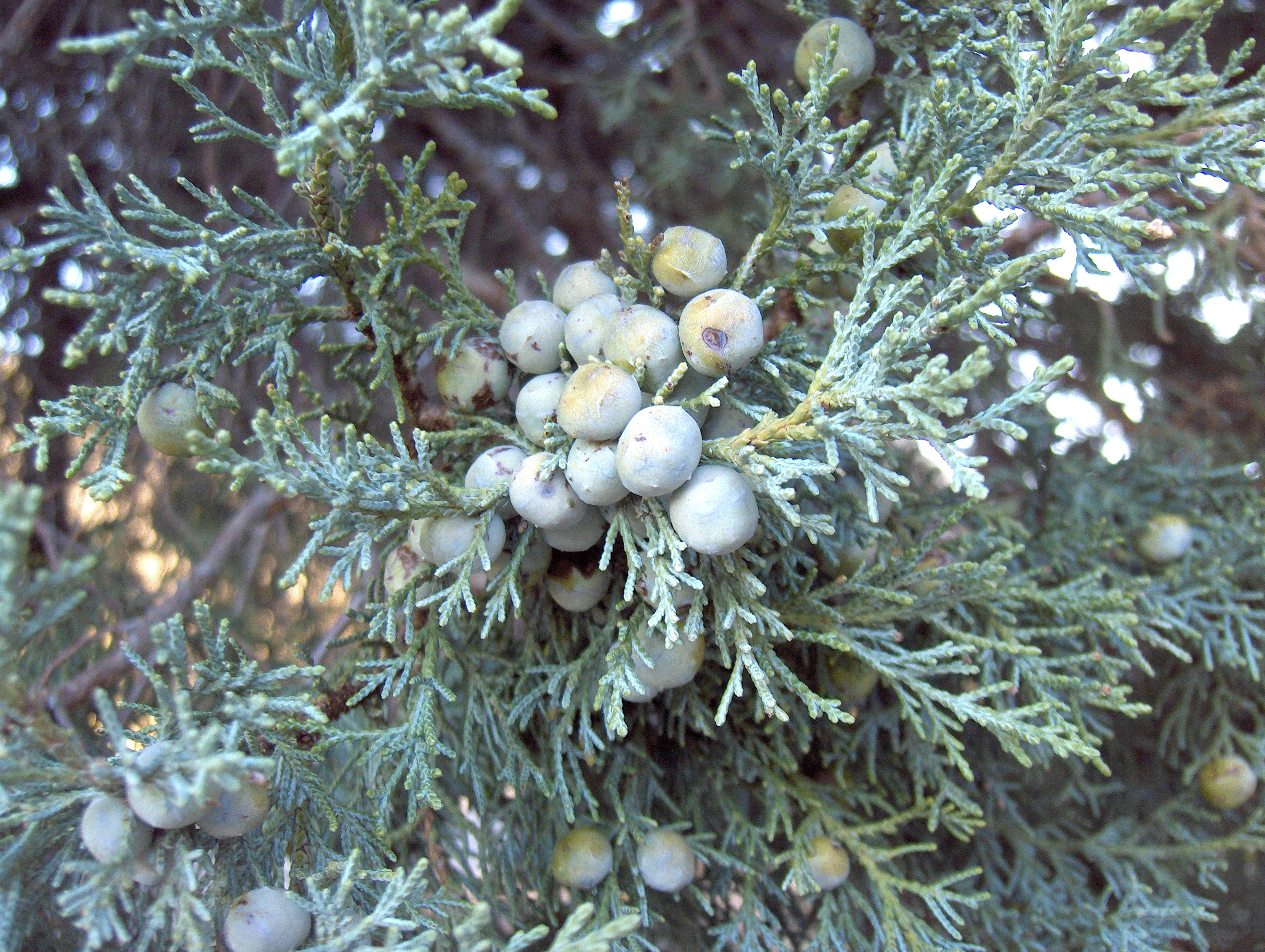 Juniperus deppeana foliage and immature cones. Big Bend National Park, Texas.